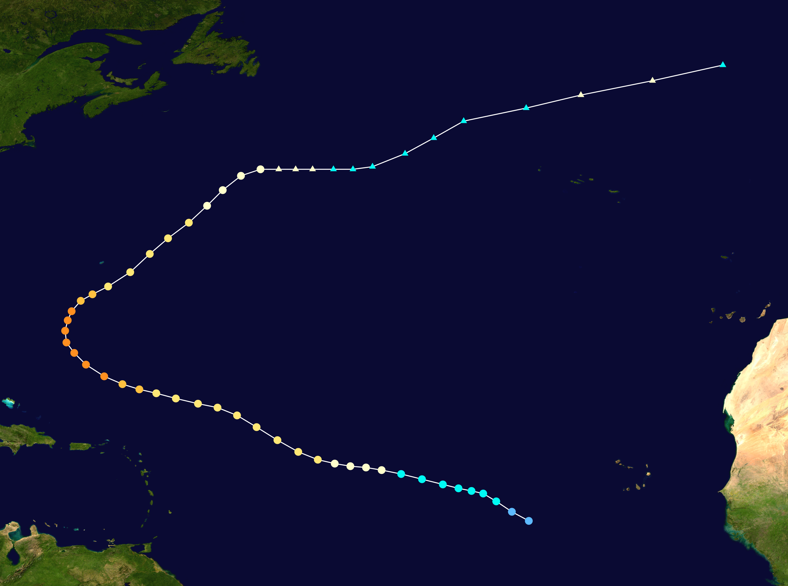 Track map of Hurricane Easy of the 1951 Atlantic hurricane season. The points show the location of the storm at 6-hour intervals. The colour represents the storm's maximum sustained wind speeds as classified in the Saffir–Simpson scale (see below), and the shape of the data points represent the nature of the storm, according to the legend below. Saffir–Simpson scale Tropical depression≤38 mph≤62 km/h Category 3111–129 mph178–208 km/h Tropical storm39–73 mph63–118 km/h Category 4130–156 mph209–251 km/h Category 174–95 mph119–153 km/h Category 5≥157 mph≥252 km/h Category 296–110 mph154–177 km/h Unknown Storm type Tropical cyclone Subtropical cyclone Extratropical cyclone / Remnant low / Tropical disturbance